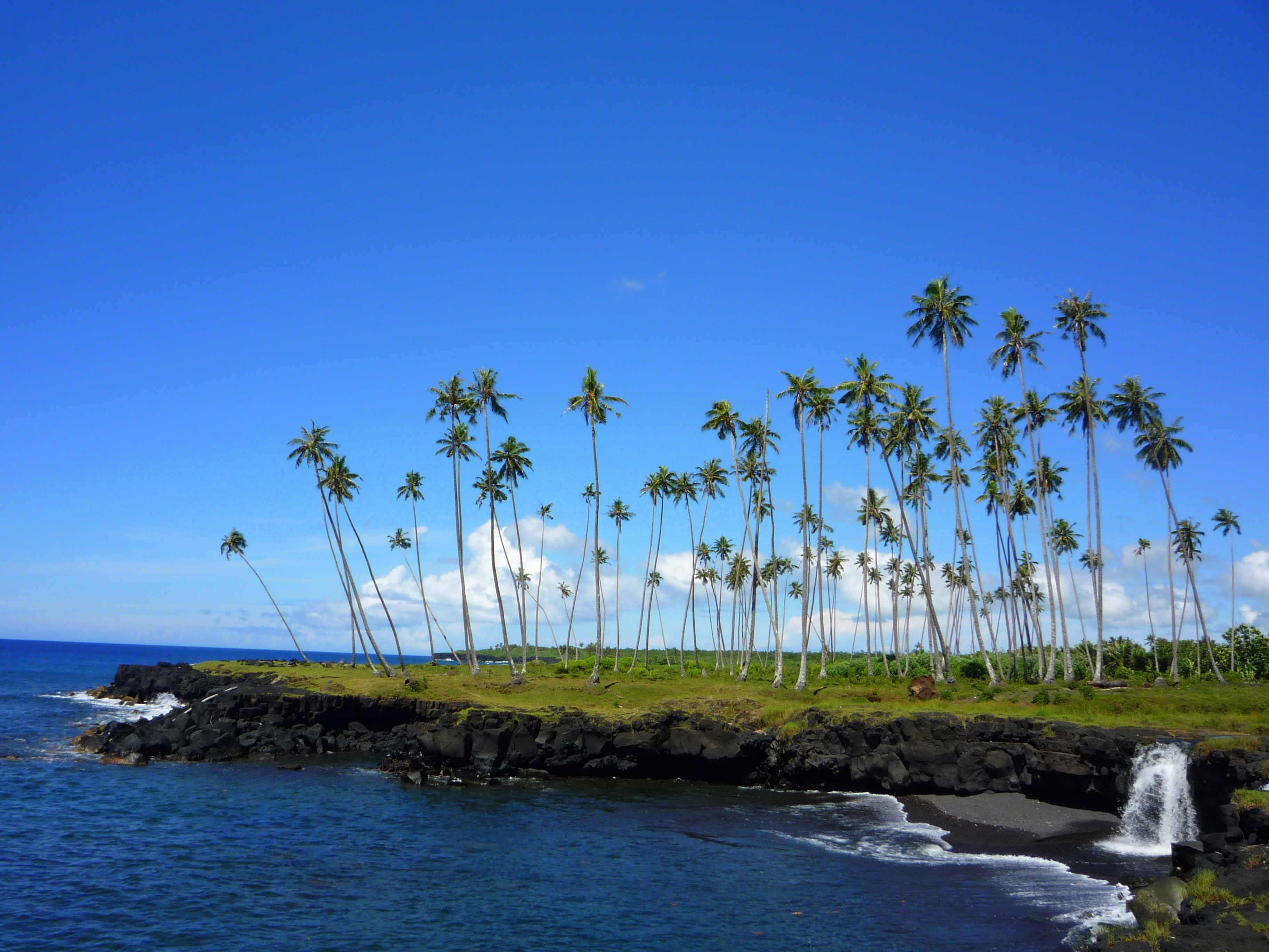 Mu Pagoa Waterfall on the south east coast of Savai'i island in Palauli district, Samoa. Access is between the villages of Puleia and Gautavai.